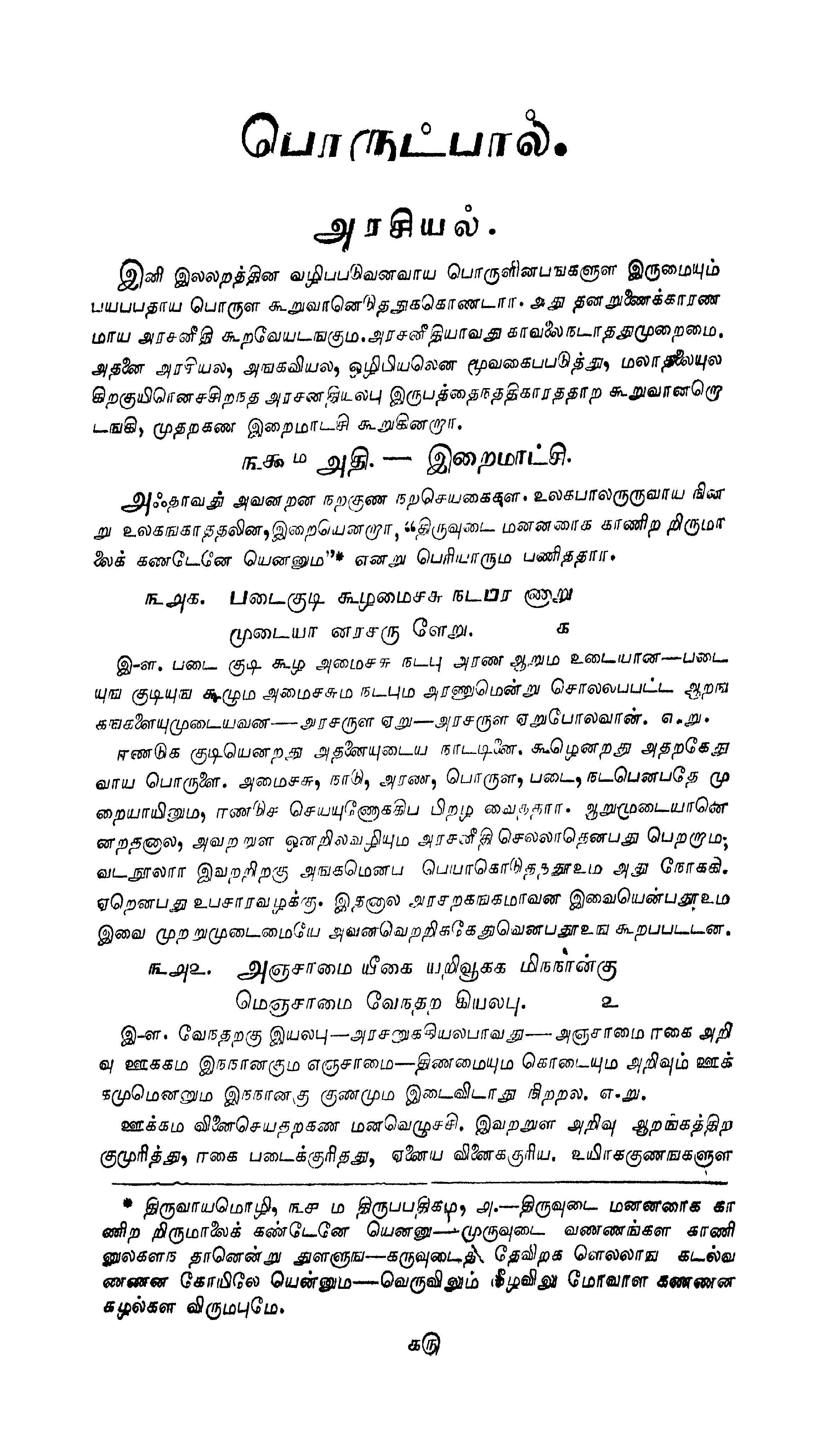 A page from Arumuka Navalar's 1861 edition of the Tirukkuṟaḷ with the commentary by Parimēlaḻakar (13th century).